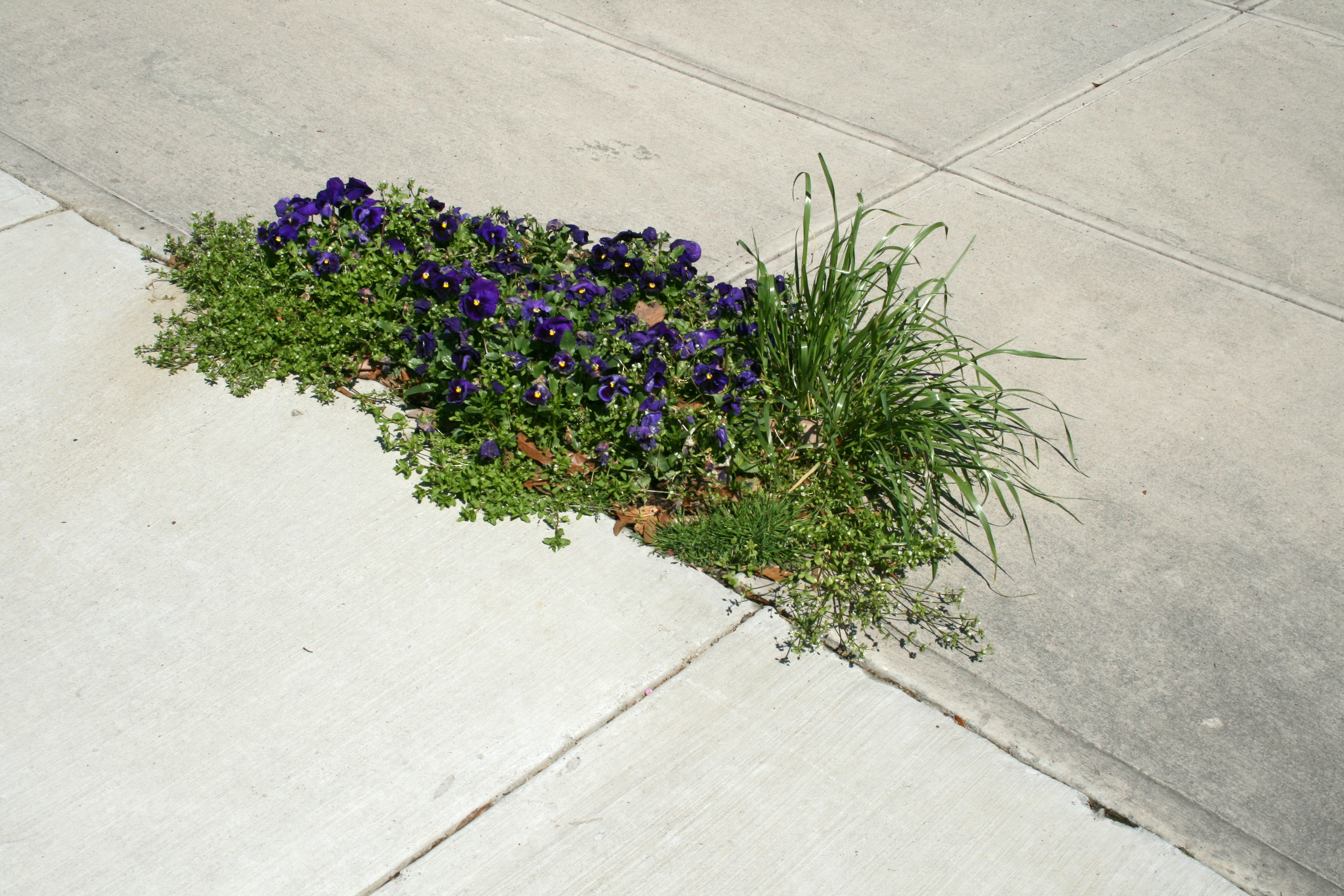 Viola Flowers growing through a crack in the pavement on North Buchanan Boulevard in the Trinity Historic District of Durham, North Carolina.